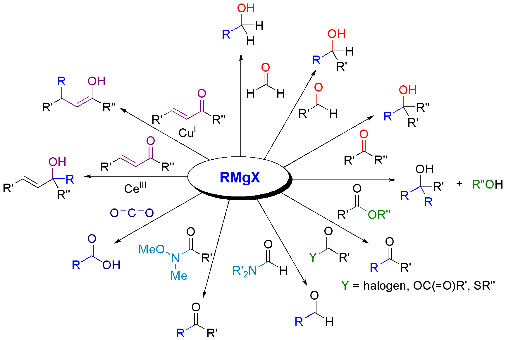 Overview of the reaction of Grignard reagent with carbonyl compounds.